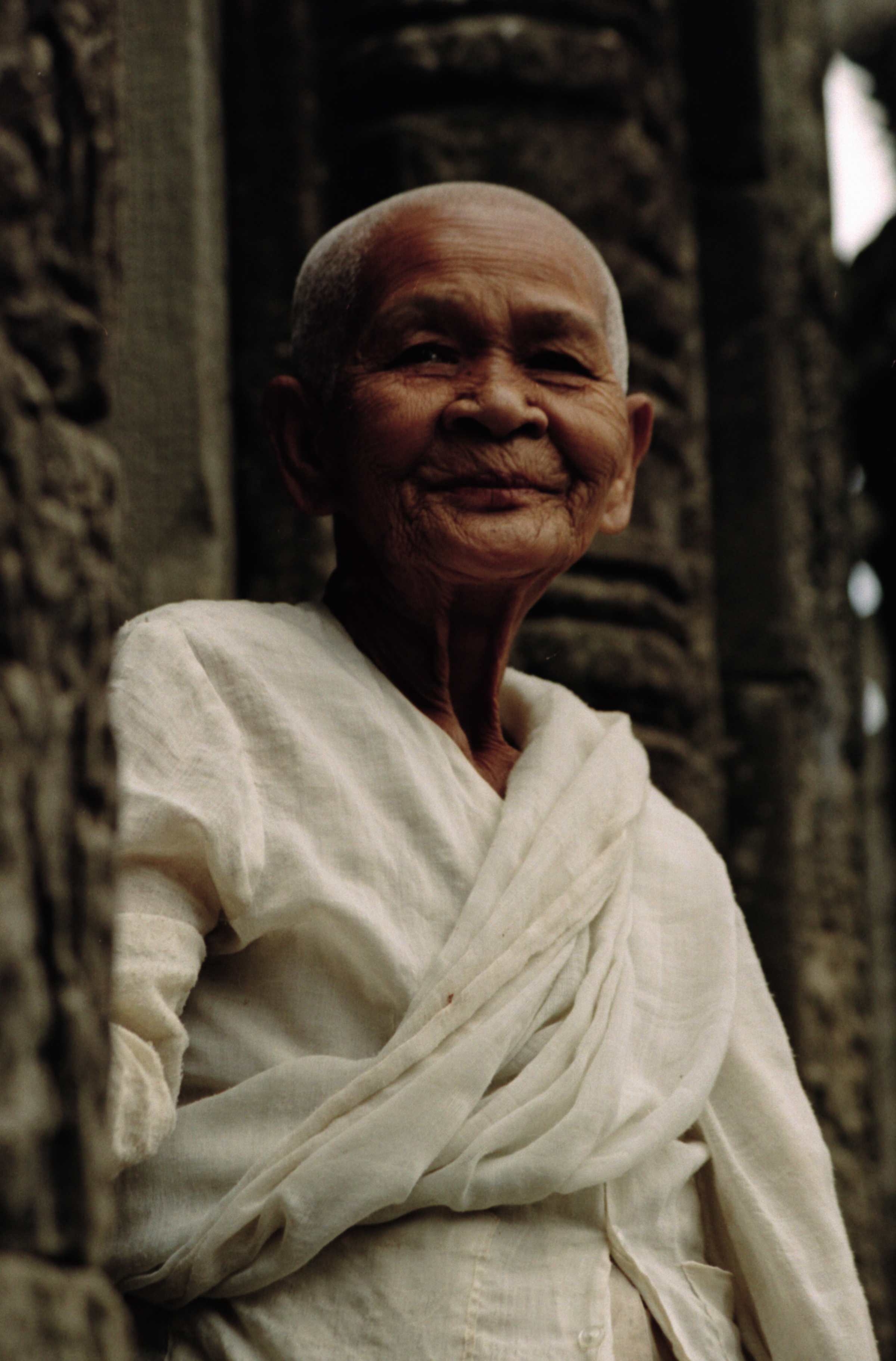 Buddhist woman (but not a fully-ordained nun). Angkor Wat, Siem Reap, Cambodia (January 2005). Photo by Peter Rimar.